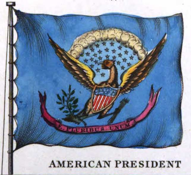 A flag captioned "American President" from an 1848 book, apparently from the 1830s or 1840s (the book's U.S. flag is the 1837-1845 26-star version, and this flag has 26 stars as well). The book does not give any details about the use of the flag, and there is apparently no record of such a flag ever being in official use (the first known official presidential flag was later in 1882). The flag does have some similarities to the modern version, such as the arrangement of the clouds.